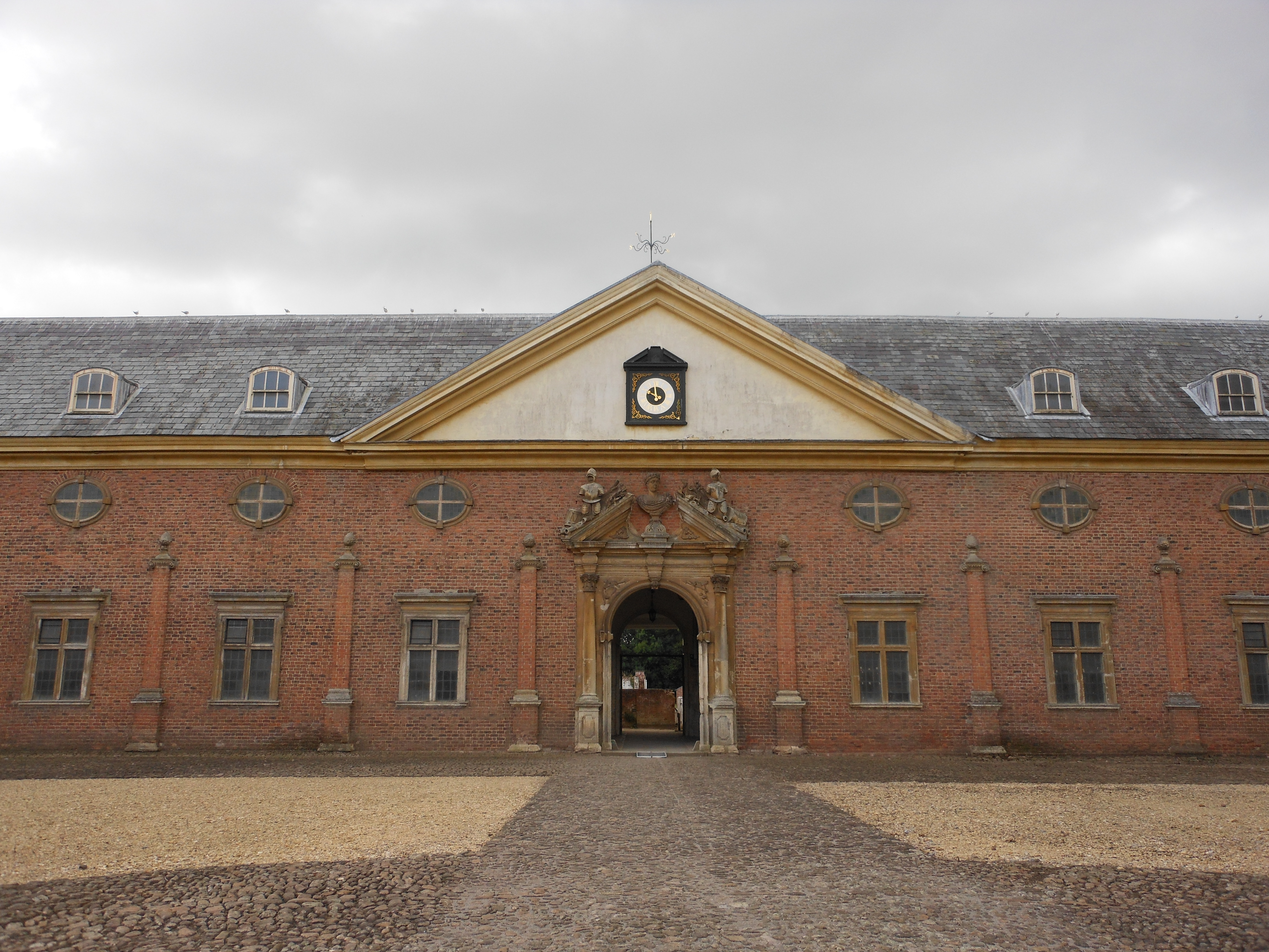 Stable Block including Orangery at Tredegar House